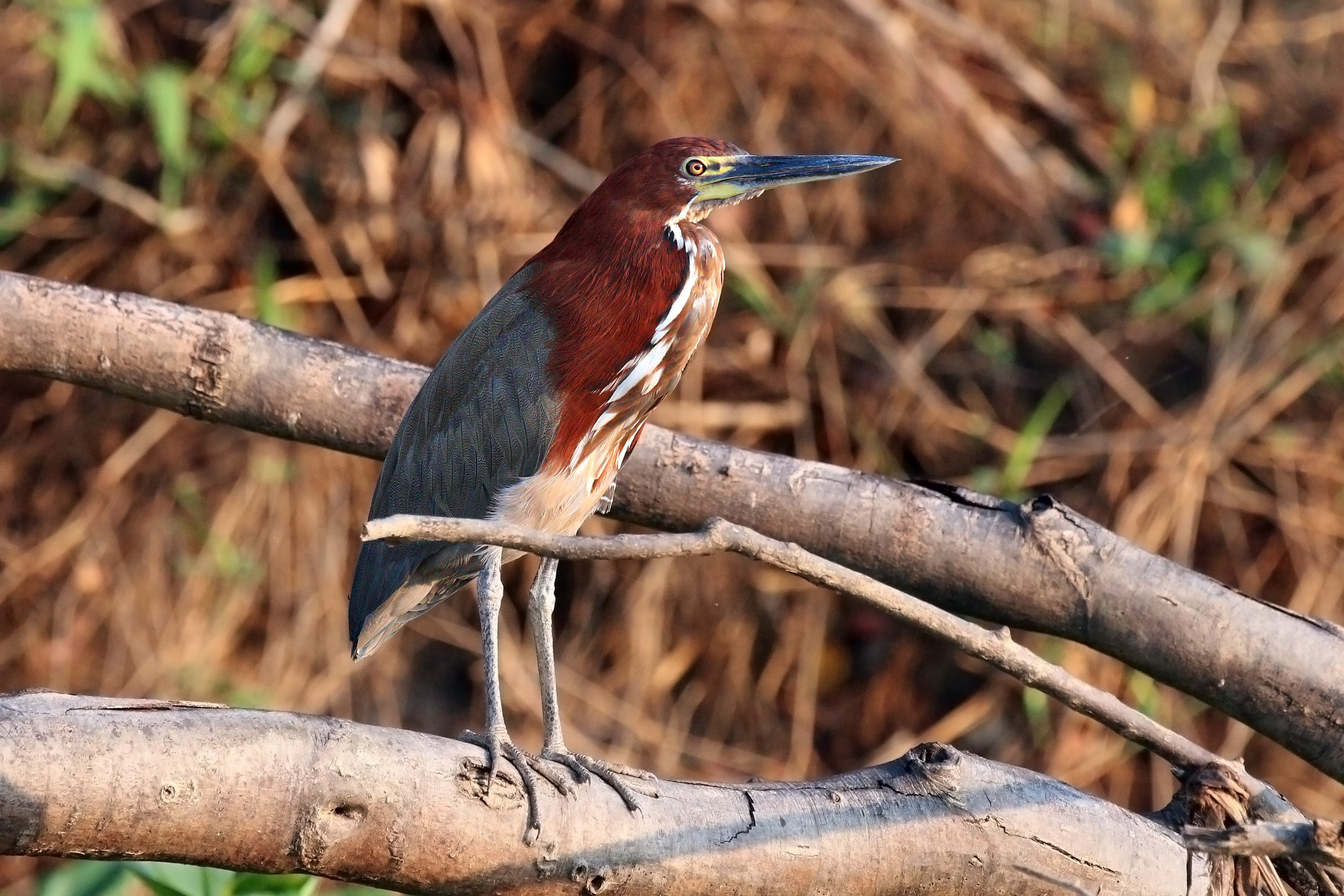 Rufescent tiger heron (Tigrisoma lineatum marmoratum), the Pantanal, Brazil